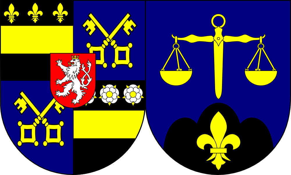 Coat od arms (shield only) of Michael Josef Pojezdný, abbot of Strahov, Prague (1987 - ).